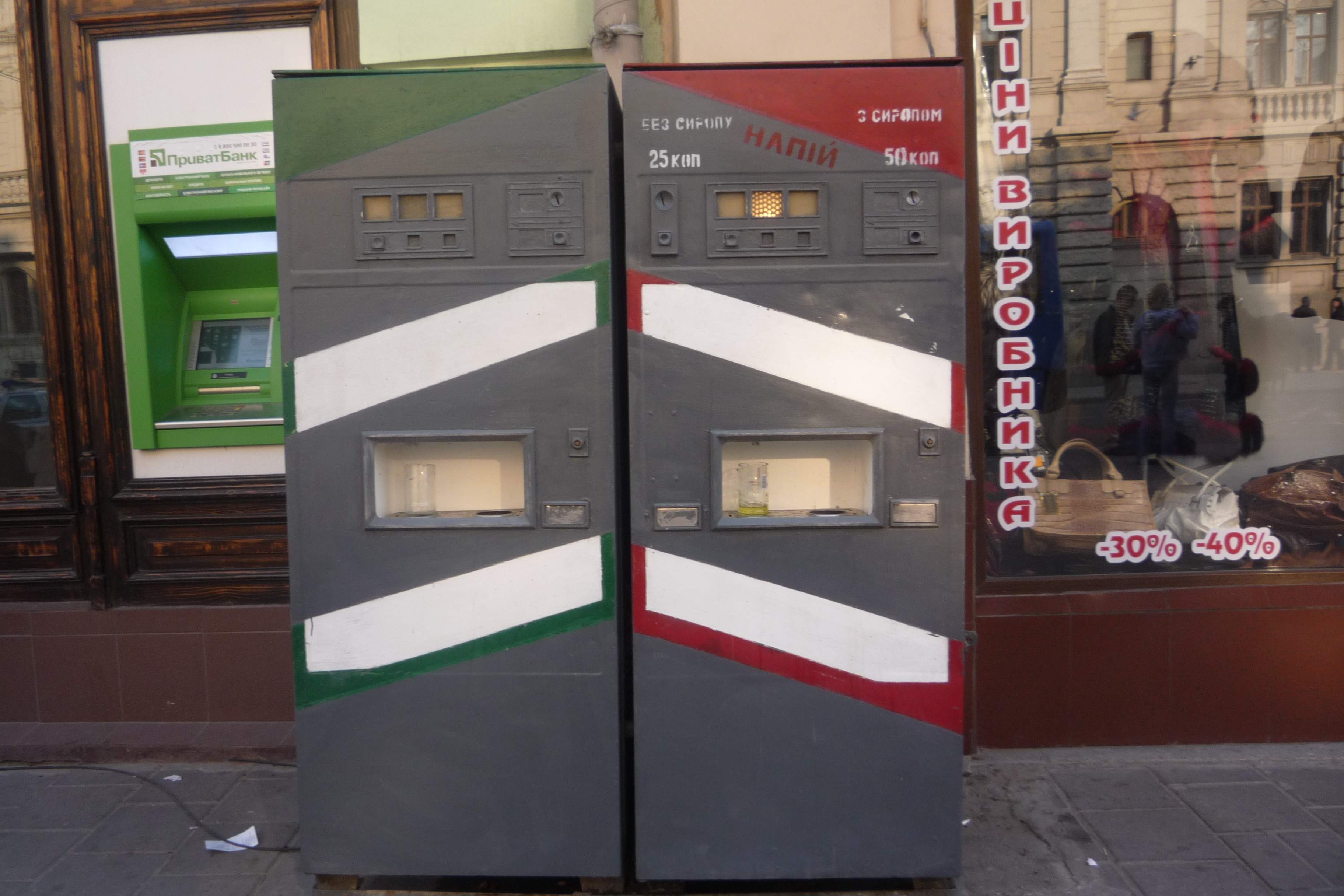 Vending machine in Lvov, Ukraine